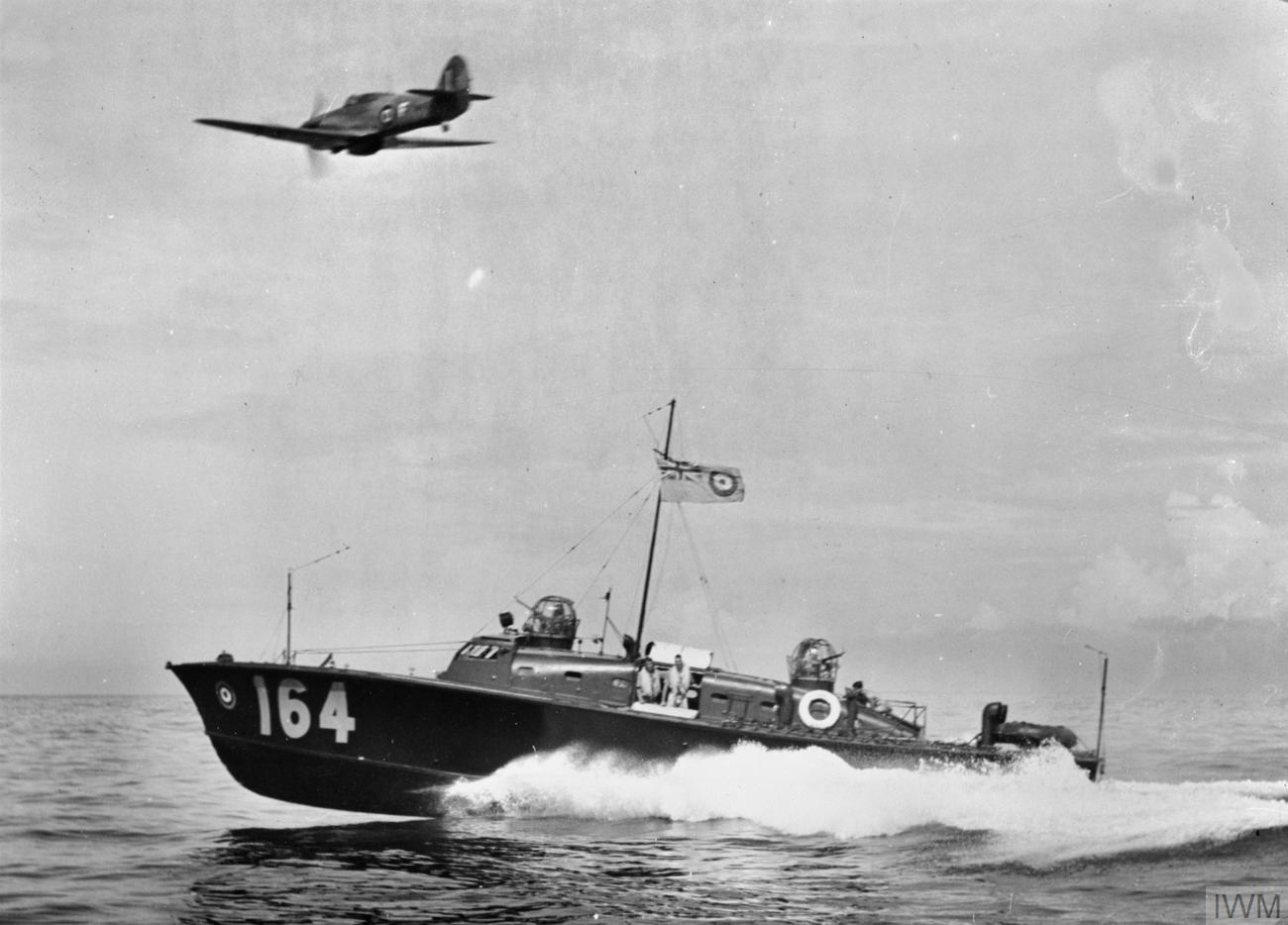 Royal Air Force High Speed Launch HSL 164 of No. 203 Air Sea Rescue Unit heads out from Colombo, Ceylon, into the Indian Ocean, guided by a Hawker Hurricane search aircraft of No. 222 Group RAF.